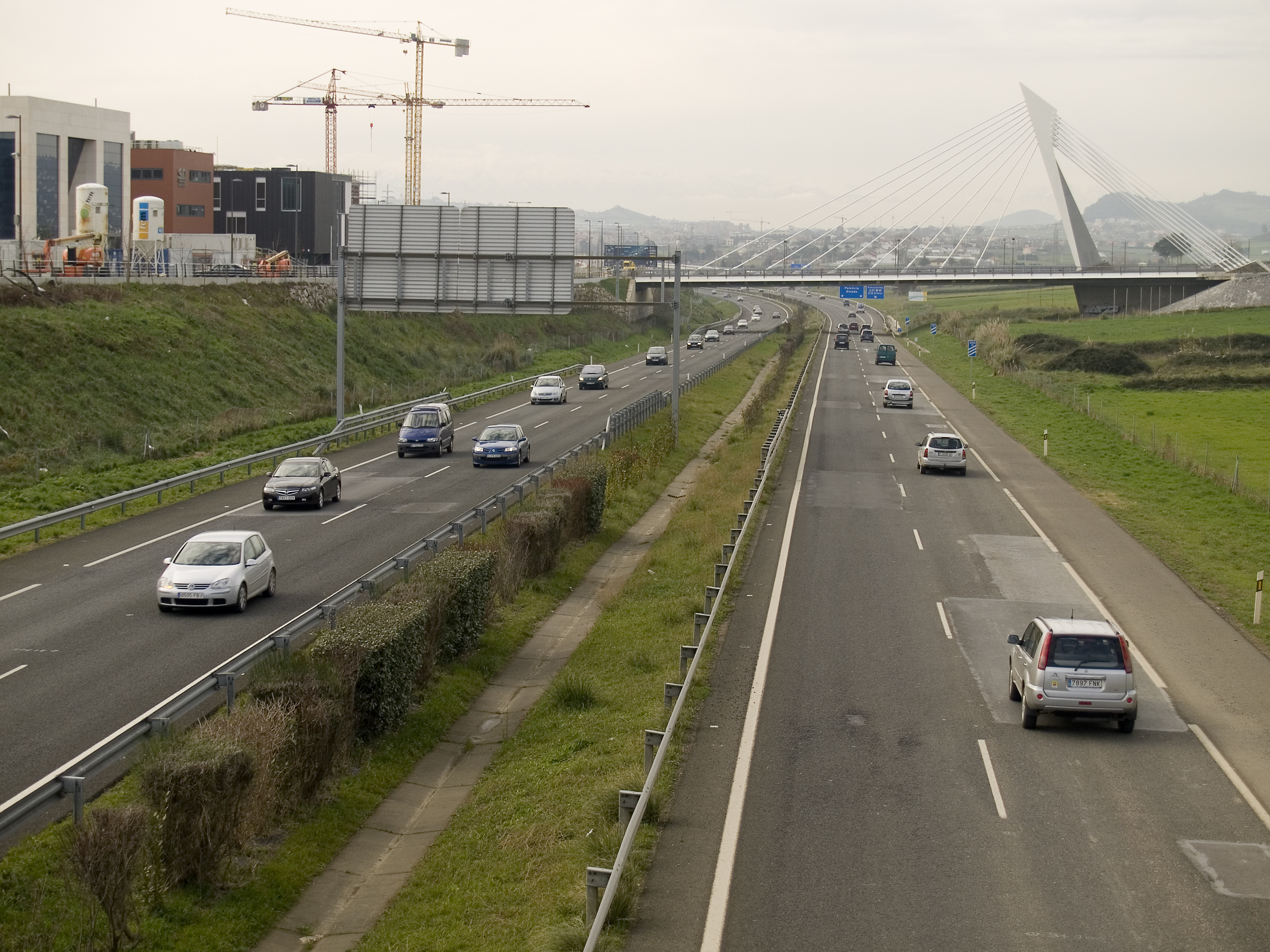 Autovía S-20 a su paso por el Parque Científico y Tecnológico de Cantabria (PCTCAN)